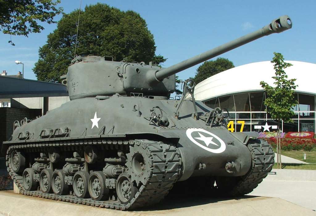 Saint Mere Eglise - Sherman tank